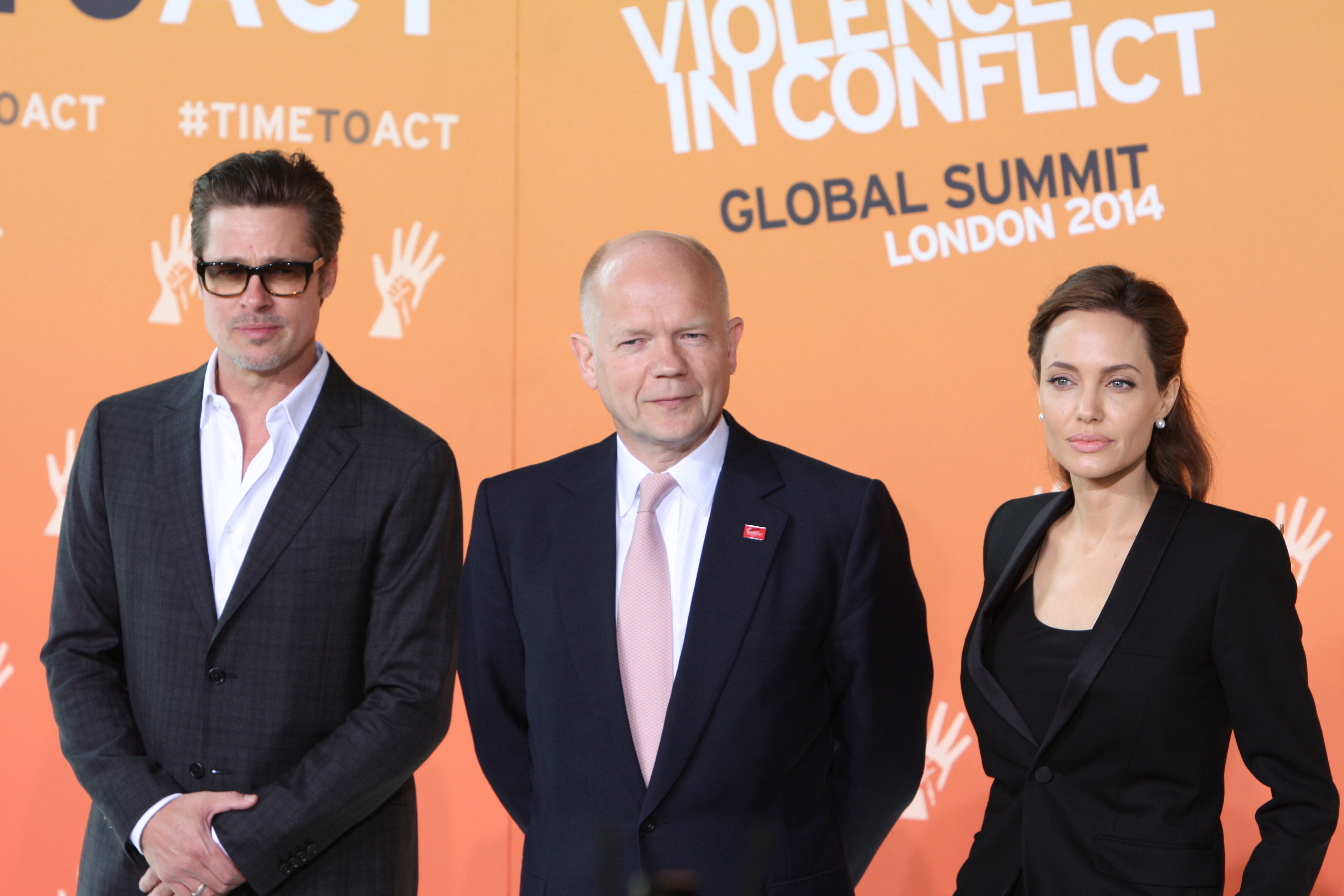 Foreign Secretary William Hague with UN Special Envoy Angelina Jolie and Brad Pitt at the beginning of day three of the Global Summit to End Sexual Violence in Conflict.